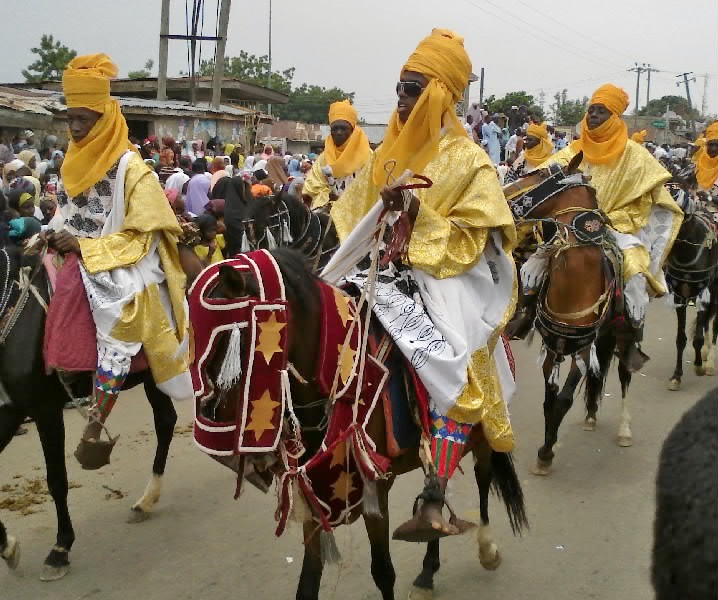 This pictures are taken during Eid-el Fitr celebrations locally known as Hawan Sallah or Hawan daushe (meaning Sallah riding) in Bauchi, Bauchi state. The horse riders dress and adorned in traditional (mostly Hausa warriors) regalia. This celebration can sometimes happens for marriage ceremonies and welcoming expatriate guest to the state. Note: Hausa is a tribe/language in most part of northern Nigeria This is an image of Cultural Fashion or Adornment from Nigeria